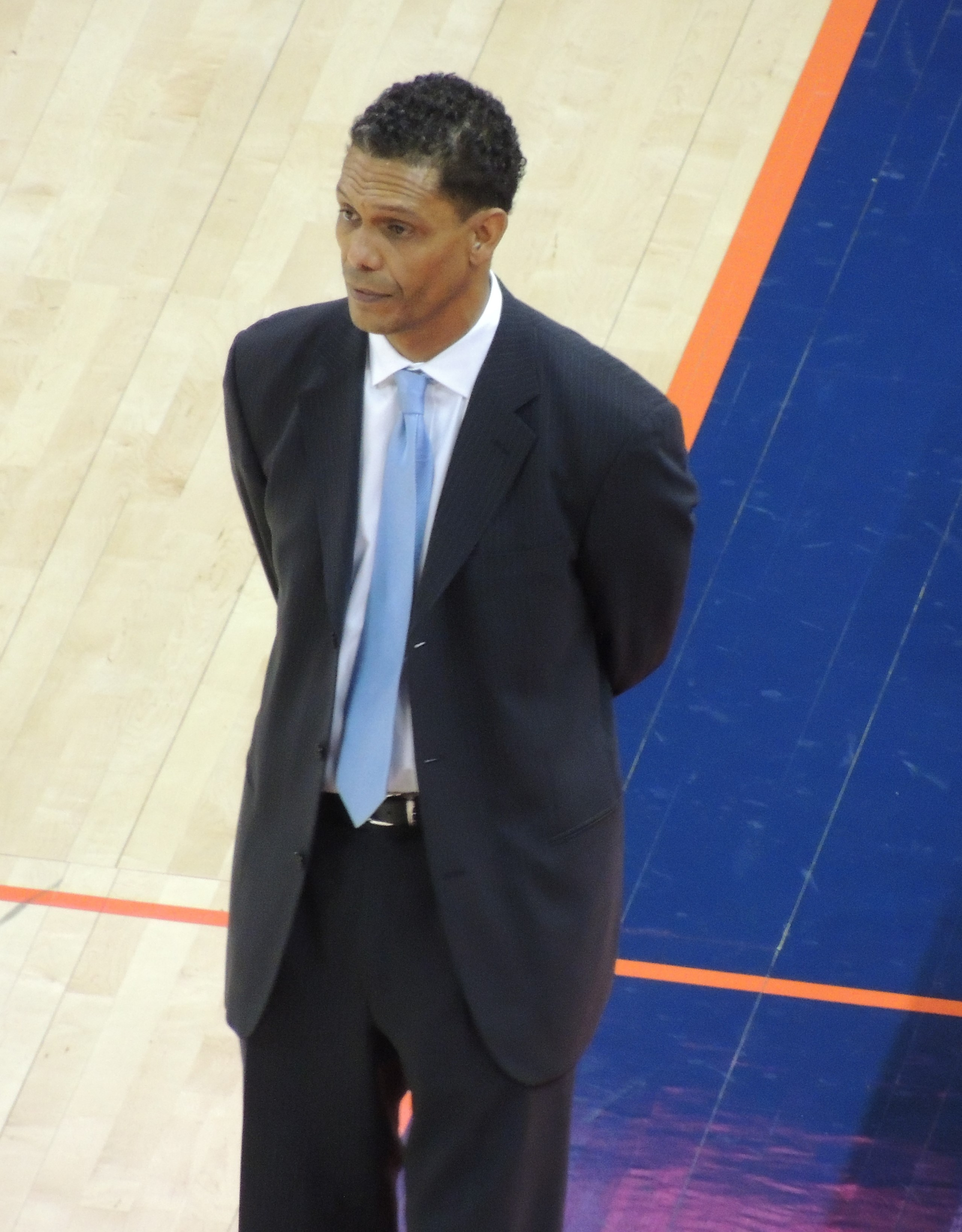 Monmouth basketball coach King Rice surveys the court in a November, 2017 game against the University of Virginia